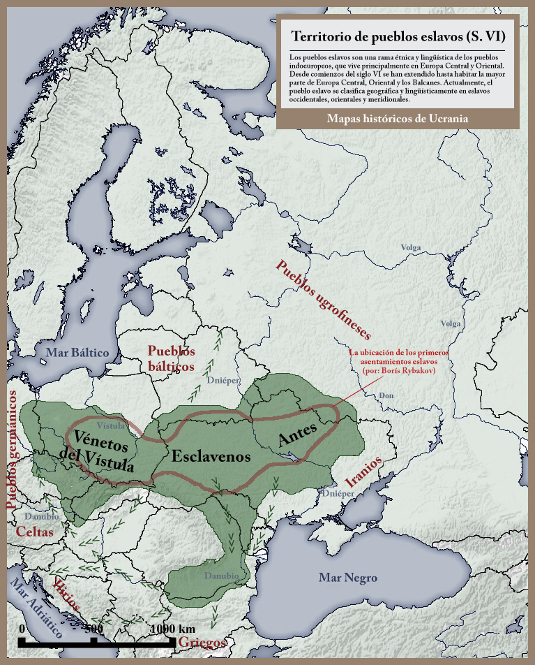 Approximate distribution of the early Slavs in the 6th century (shown in green). The red outline shows the approximate extent of the prehistoric (pre 6th century) Slavic homeland. The green arrows show the ongoing expansions further into the Balkans and into the Baltic. The background map is a modern map of Europe (showing modern national borders and the Tsimlyansk Reservoir)